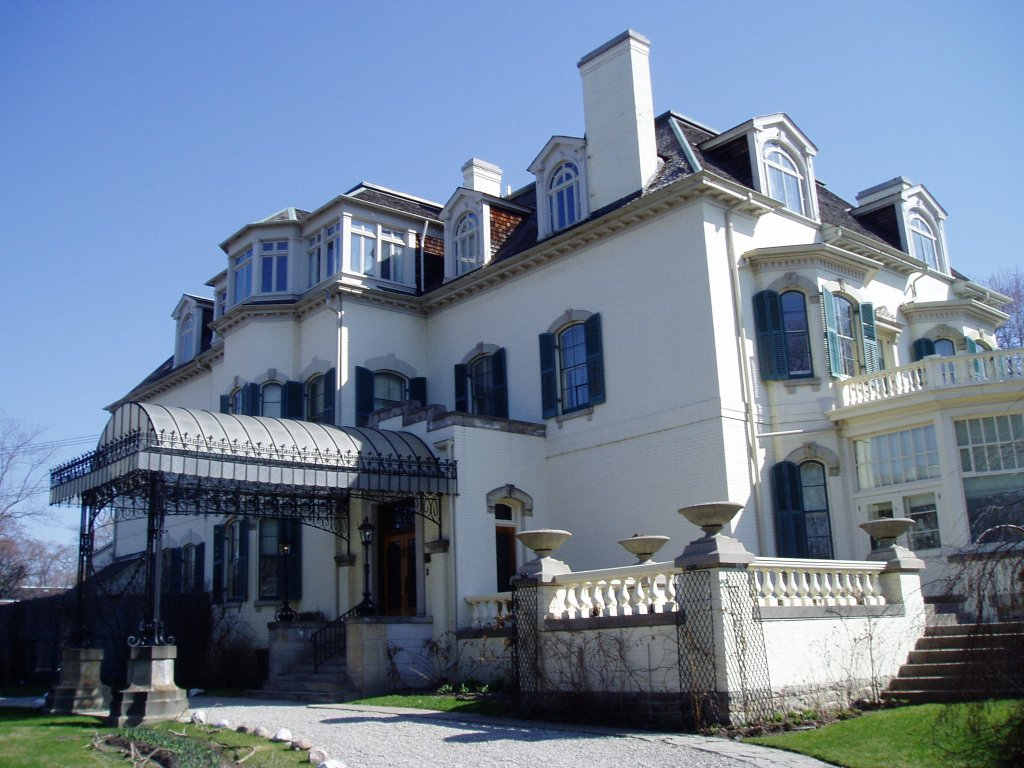 Spadina House